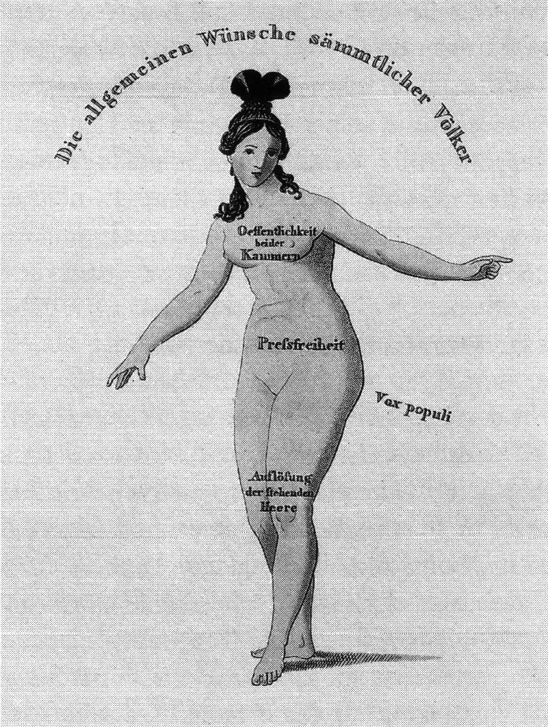 Illustration of “The demands of the people” during the revolutions of 1848/49. “Vox populi” is sarcastically likened to a fart!